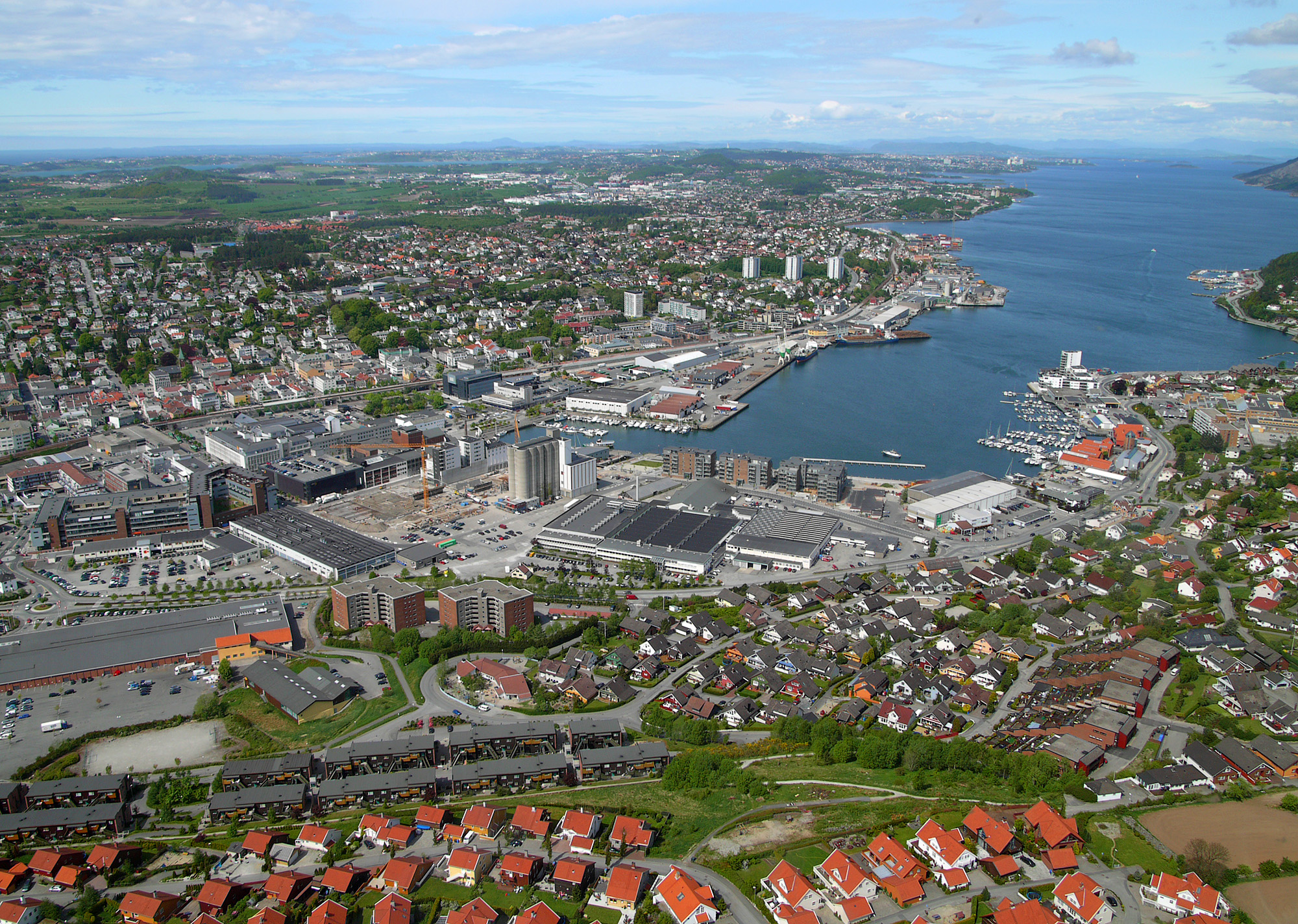 Sandnes, Norway. Looking North, with Stavanger in the far background. Edit of Image:Sandnes.JPG; straightened, improved contrast, more saturated colours, sharpened, and downscaled to improve sharpness.